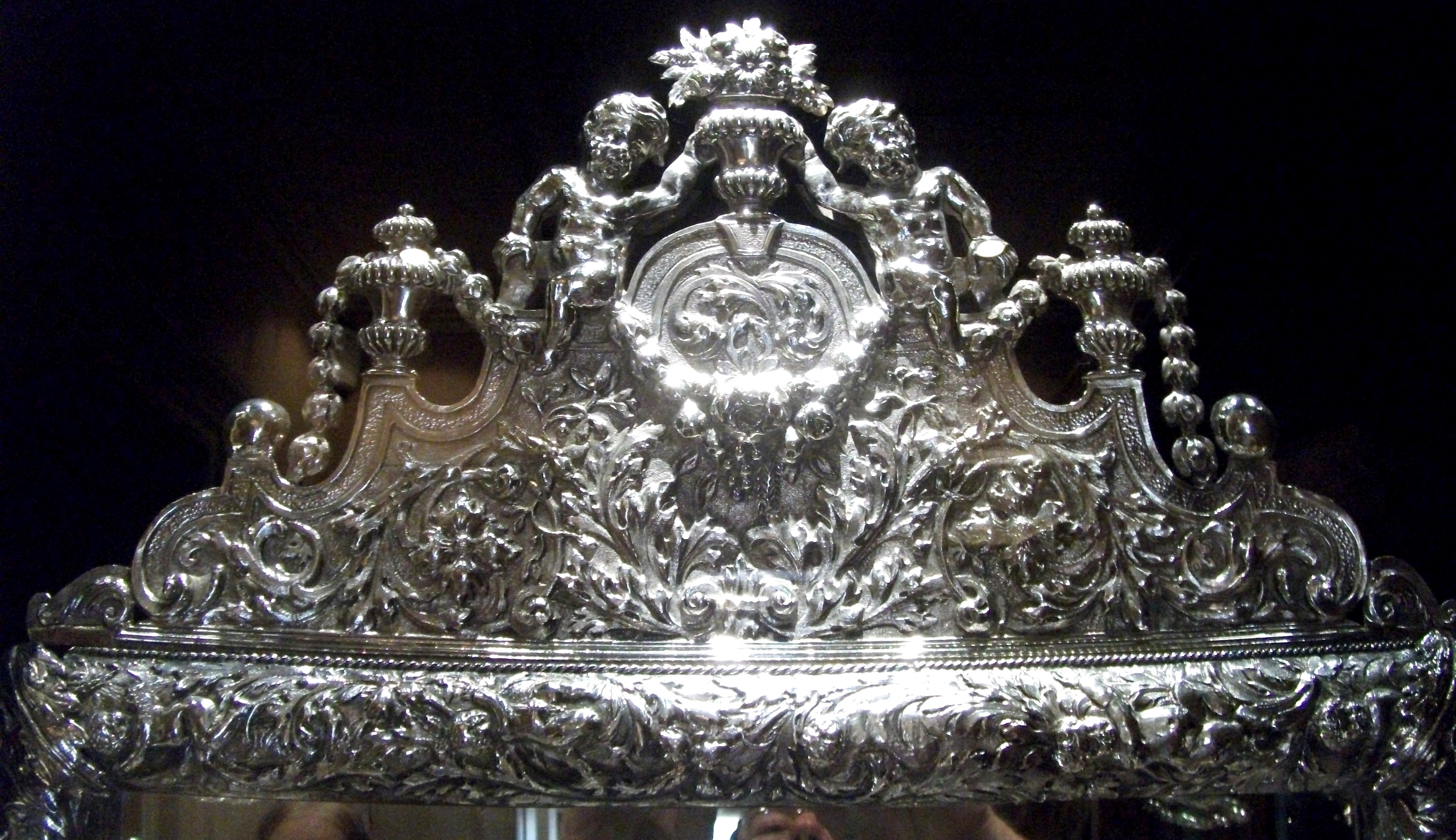 Toilet Service at Weston Park, Staffs